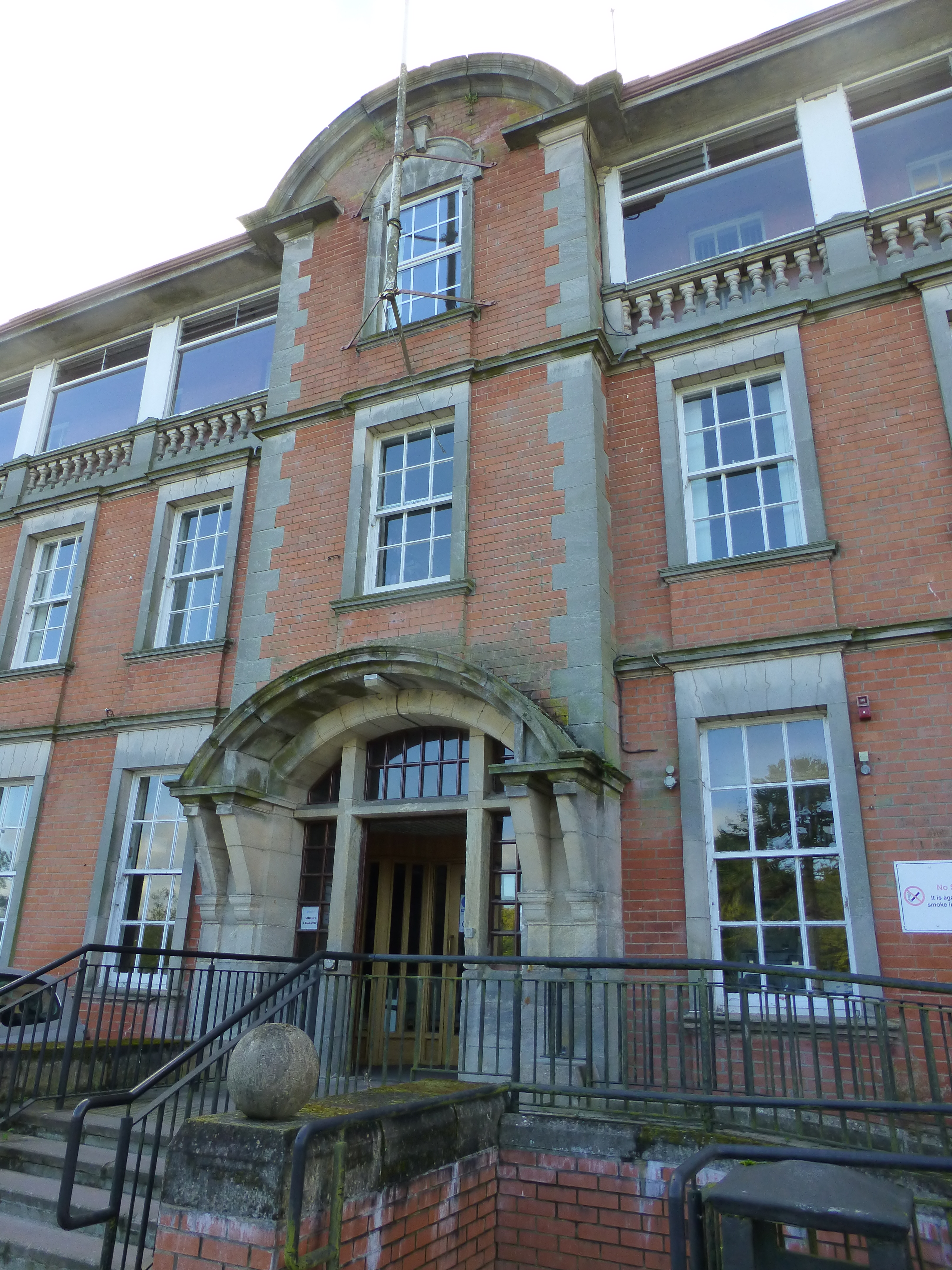 Knockbracken Healthcare Park,Belfast, Ireland September 2015